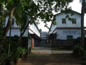 mahatma gandhi university